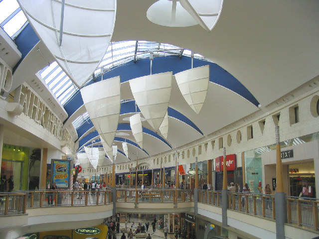 'Thames Walk', Bluewater Shopping Centre, Dartford, Kent.